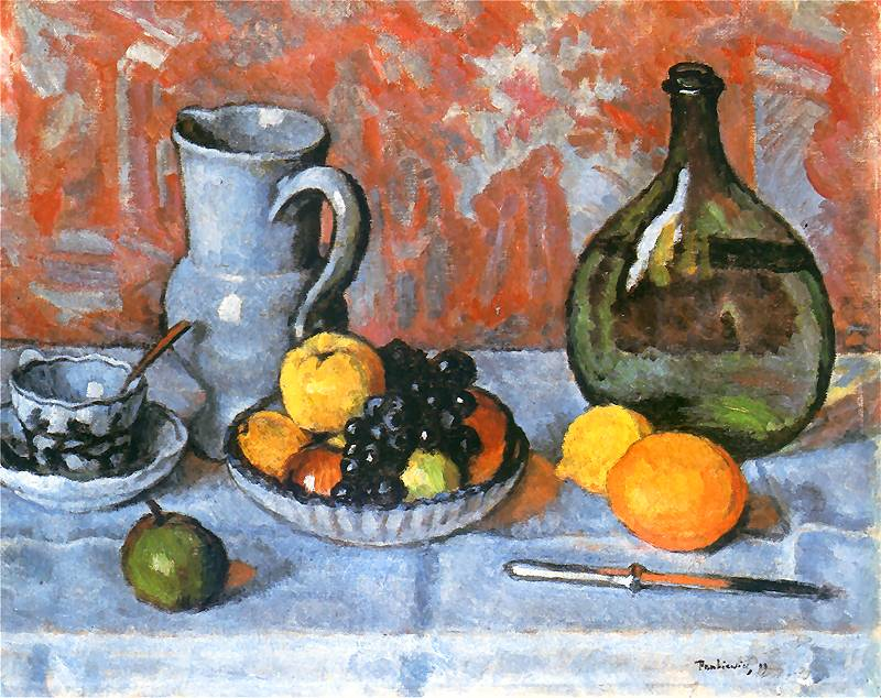 Still life with fruits and knife